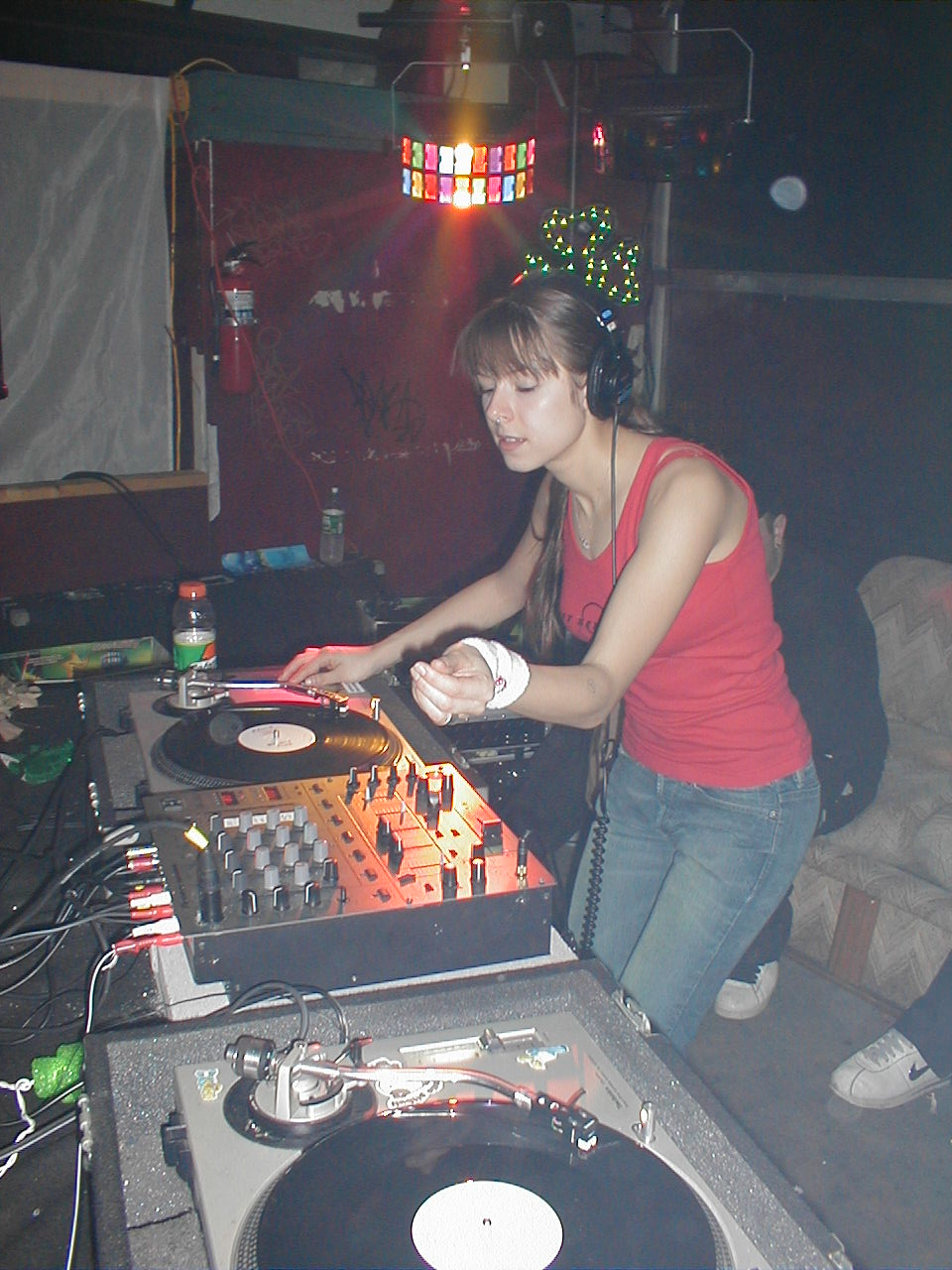 Reid Speed performs at Get Lucky in Springfield Massachusetts 03-22-2003